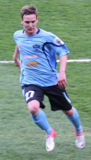 Photo of Slovak footballer Šimon Šmehýl